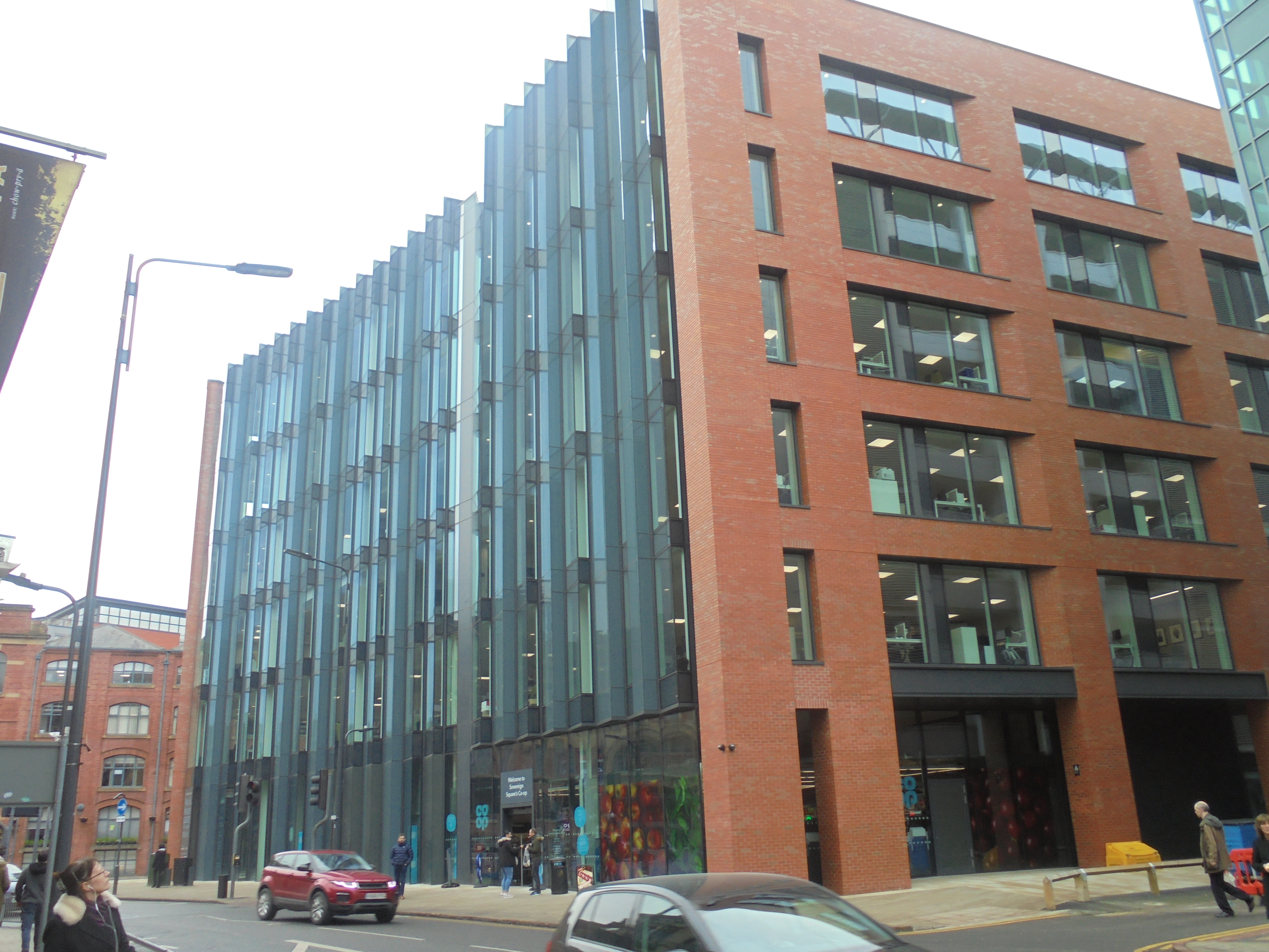 Sovereign Square, Swinegate, Leeds, West Yorkshire. This site was the site of Queen's Hall (a former tramshed known for its use for concerts). This was demolished in 1989 and the site was a vacant plot. In the 2000s a Skyscraper taller than Bridgewater Place called Criterion Place was proposed for this site. The financial crash poured cold water on those plans. This more modest building was built around 2016-17. Taken on the afternoon of Thursday the 8th of February 2018.